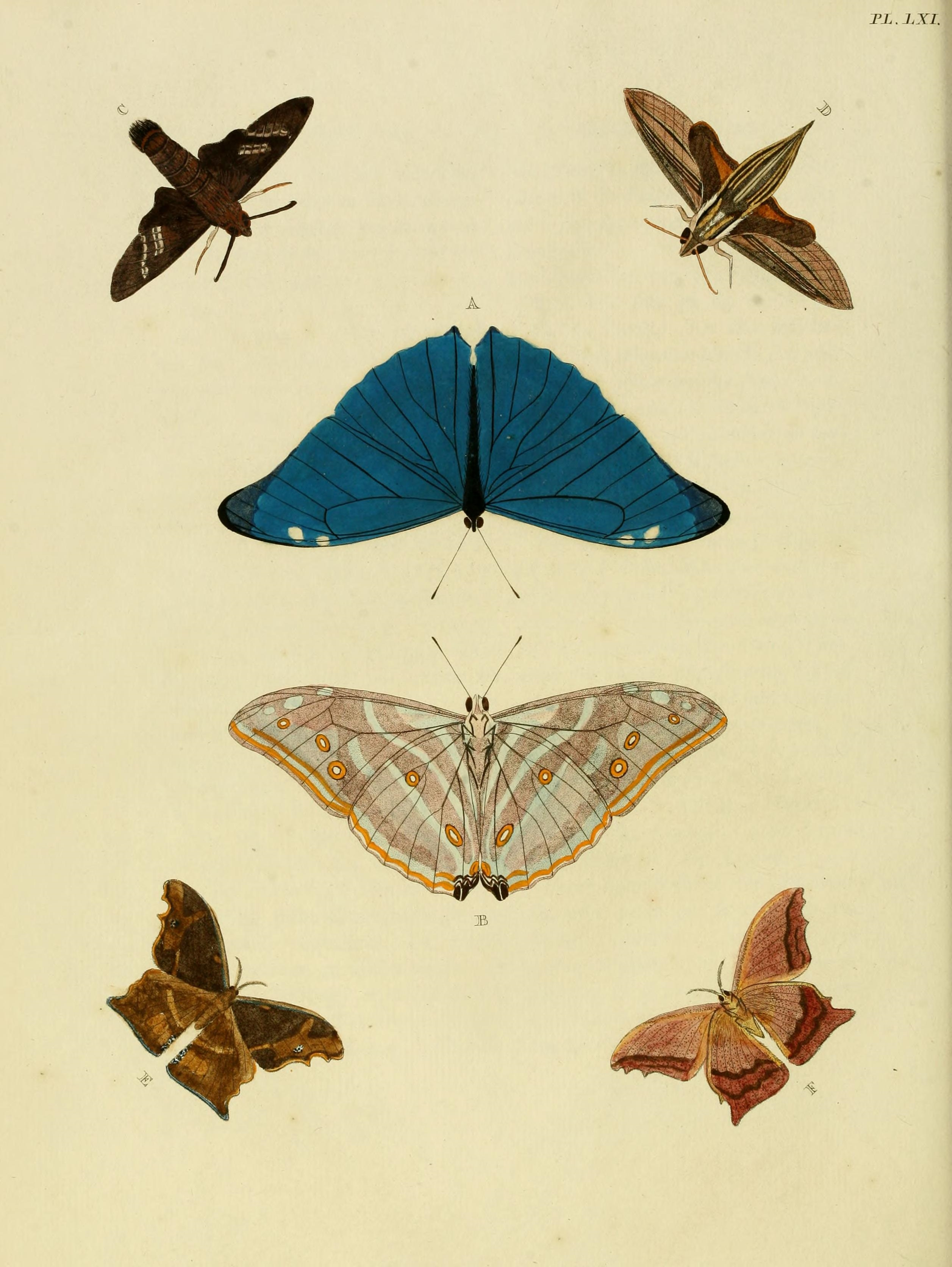 Plate LXI A, B: "(Papilio) Adonis" ( = Morpho marcus marcus), see Funet C: "(Sphinx) Fadus" ( = Aellopos fadus, iconotype?), see Funet D: "(Sphinx) Lycetus" ( = Theretra lycetus, iconotype?), see Funet E, F: "(Phalaena) Angulata" ( = Aploschema instabilaria), see Funet Note: In description missspelled as "Argulata", in register "ANGULATA".